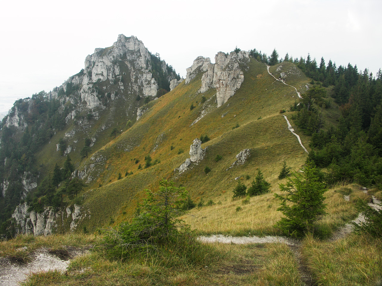 Western Summit of Ostrá Mountain, Greater Fatra Range, Slovakia